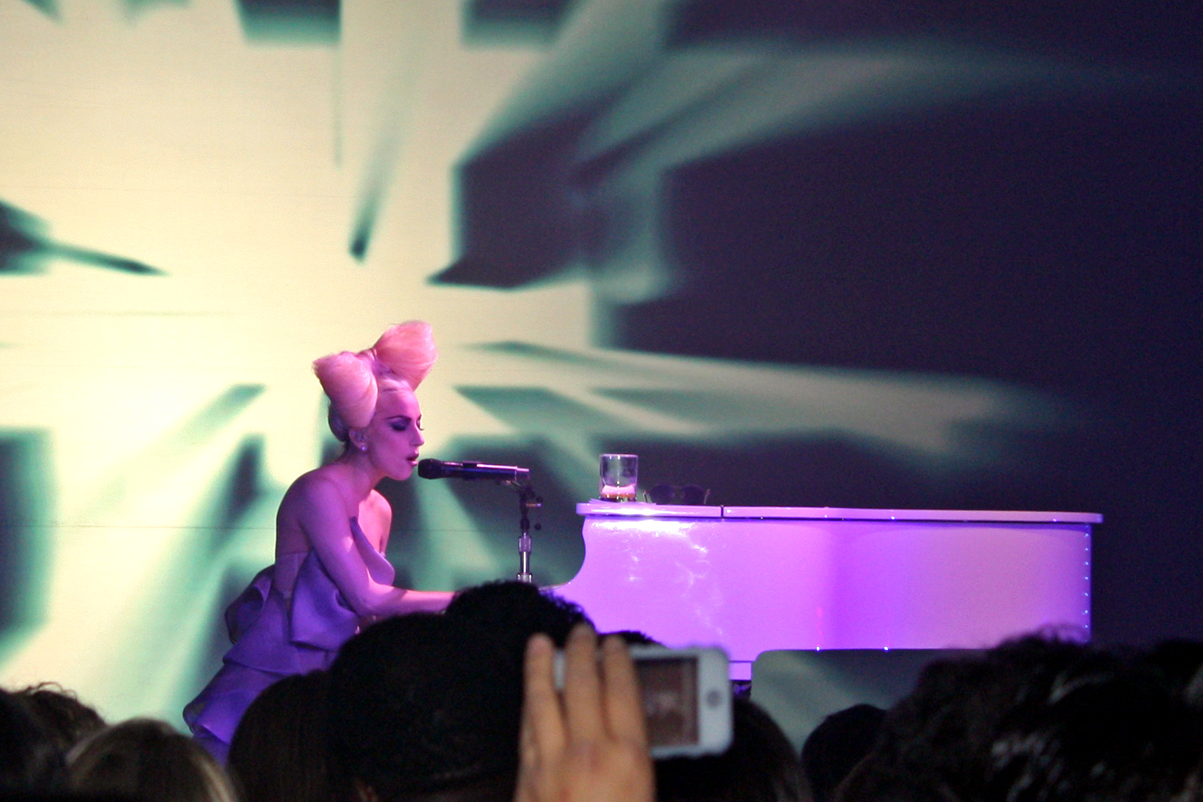 Lady Gaga perfooming "Speechless" at the VEVO Launch Event.